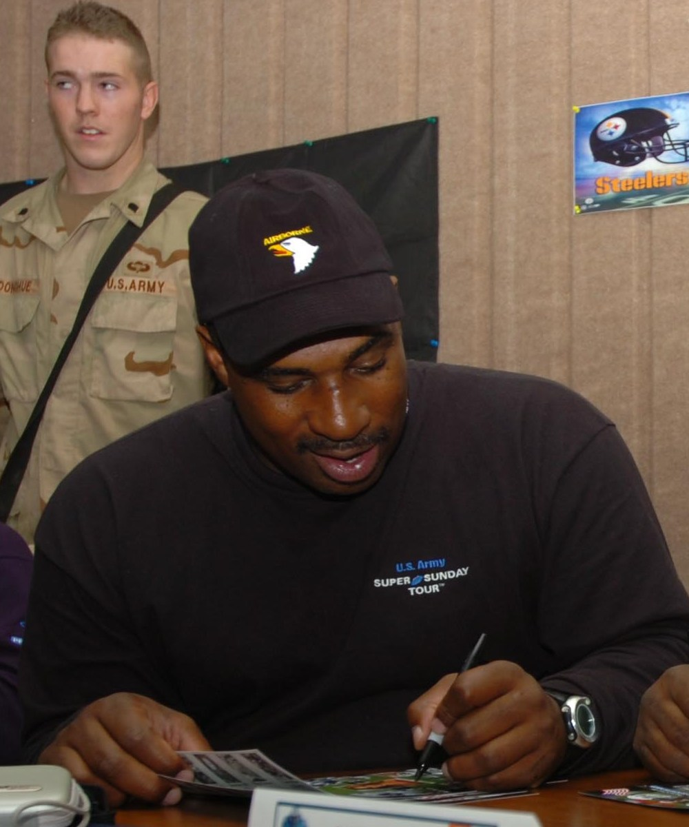 Keith Byars signing autographs at Forward Operating Base Speicher, Tikrit, Iraq during a visit where he watched Super Bowl XL with the troops.